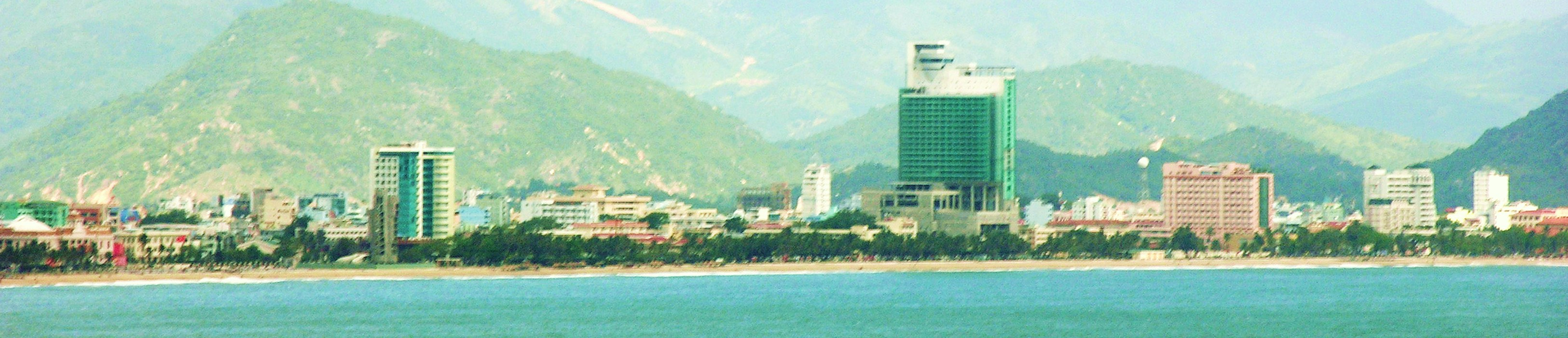 Nha Trang Bay view from Vinpearl Land's cable cars